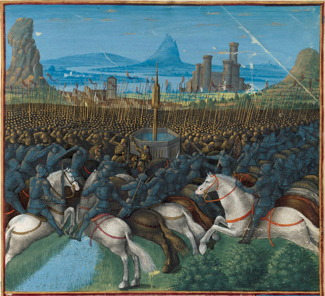 Miniature of the Battle of Cresson Bibliothèque Nationale FR. 5594 Fol. 197, Sebastian Mamerot, Les Passages fait Outremer, vers 1490